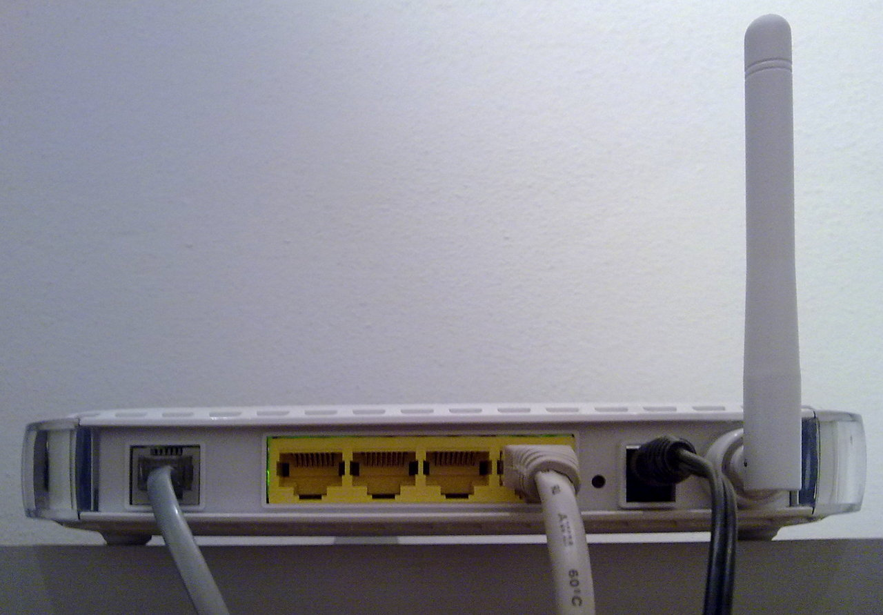 The rear of a Netgear DG834v4